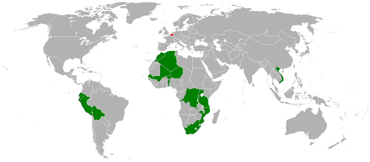 A world map showing the countries where development projects are supported by the Belgian Technical Cooperation (BTC).